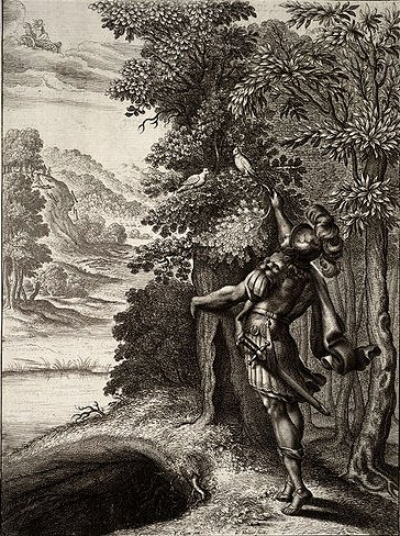 The golden bough (detail)